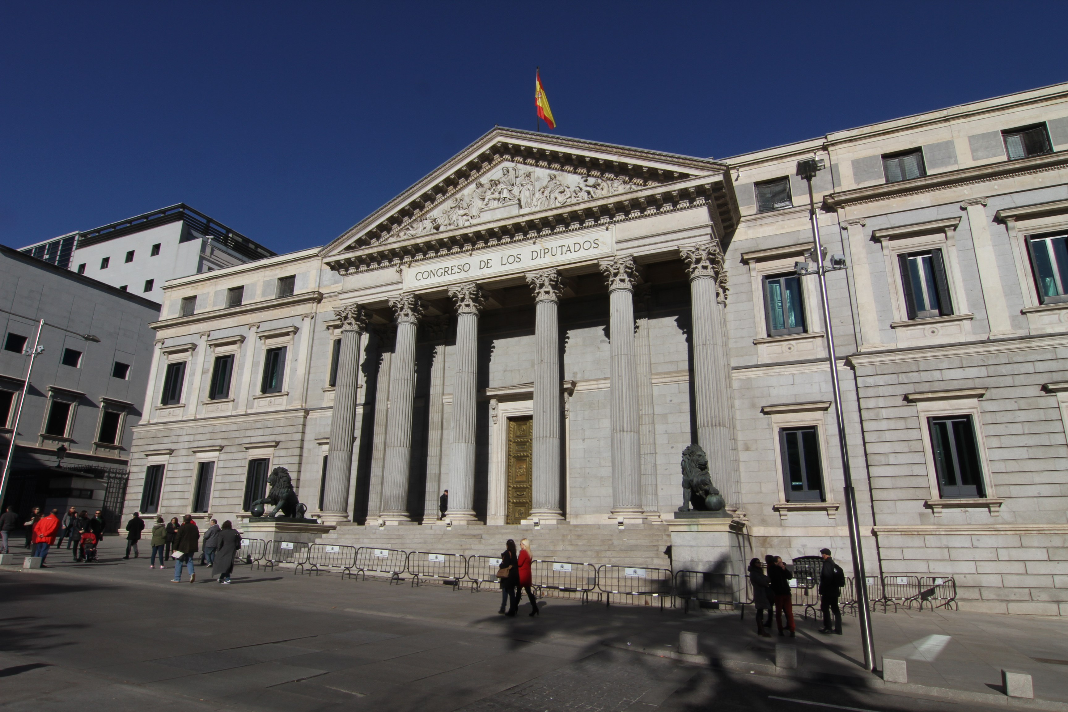 Imagen de la fachada principal del Congreso de los Diputados (Madrid, España). Congress of Deputies (Inventory)Native nameCongreso de los Diputados de EspañaParent institutionCortes GeneralesLocationMadrid, (Spain)Coordinates40° 24′ 57″ N, 3° 41′ 48″ W Established1977Web page control : Q539149 VIAF: 134718539 ISNI: 0000 0001 1956 4410 GND: 1087366097 SUDOC: 03258167X BNF: 121729241 institution QS:P195,Q539149 Palacio de las Cortes (Inventory)Native namePalacio de las Cortes de MadridLocationMadrid, Spain.Coordinates40° 25′ 00″ N, 3° 41′ 59″ W Established1843–1850Web page control : Q9054619 VIAF: 173679168 ULAN: 500302409 LCCN: sh2013000847 GND: 4228303-6 BNE: XX189659 WorldCat institution QS:P195,Q9054619